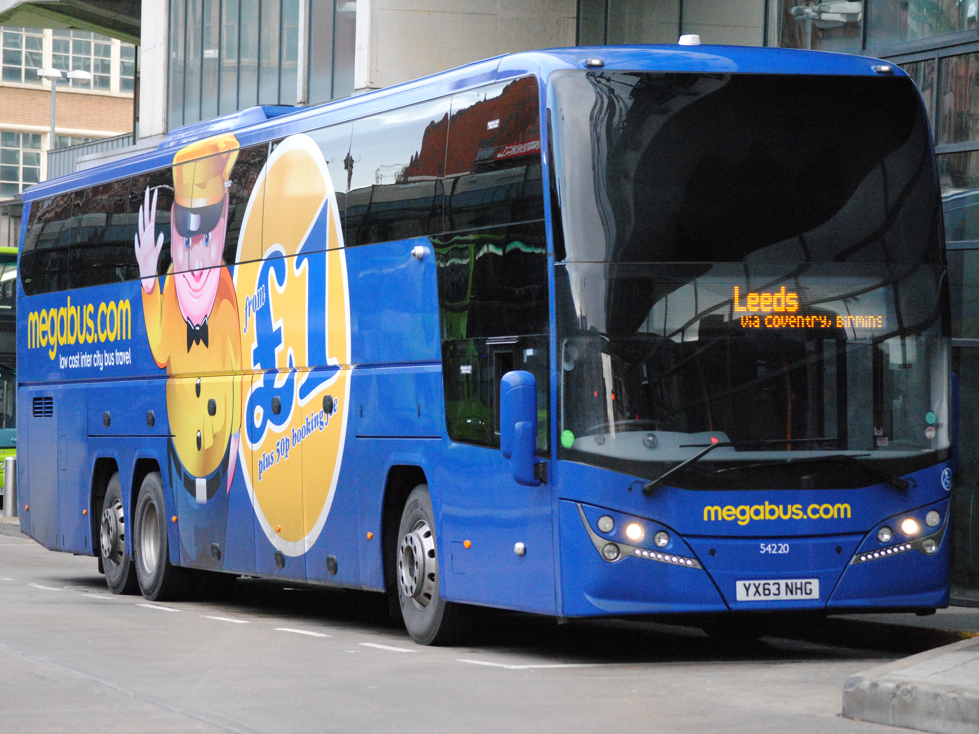 Volvo B11R Plaxton Elitei. M35 Rugby - Leeds route seen here in Manchester Shudehill Interchange